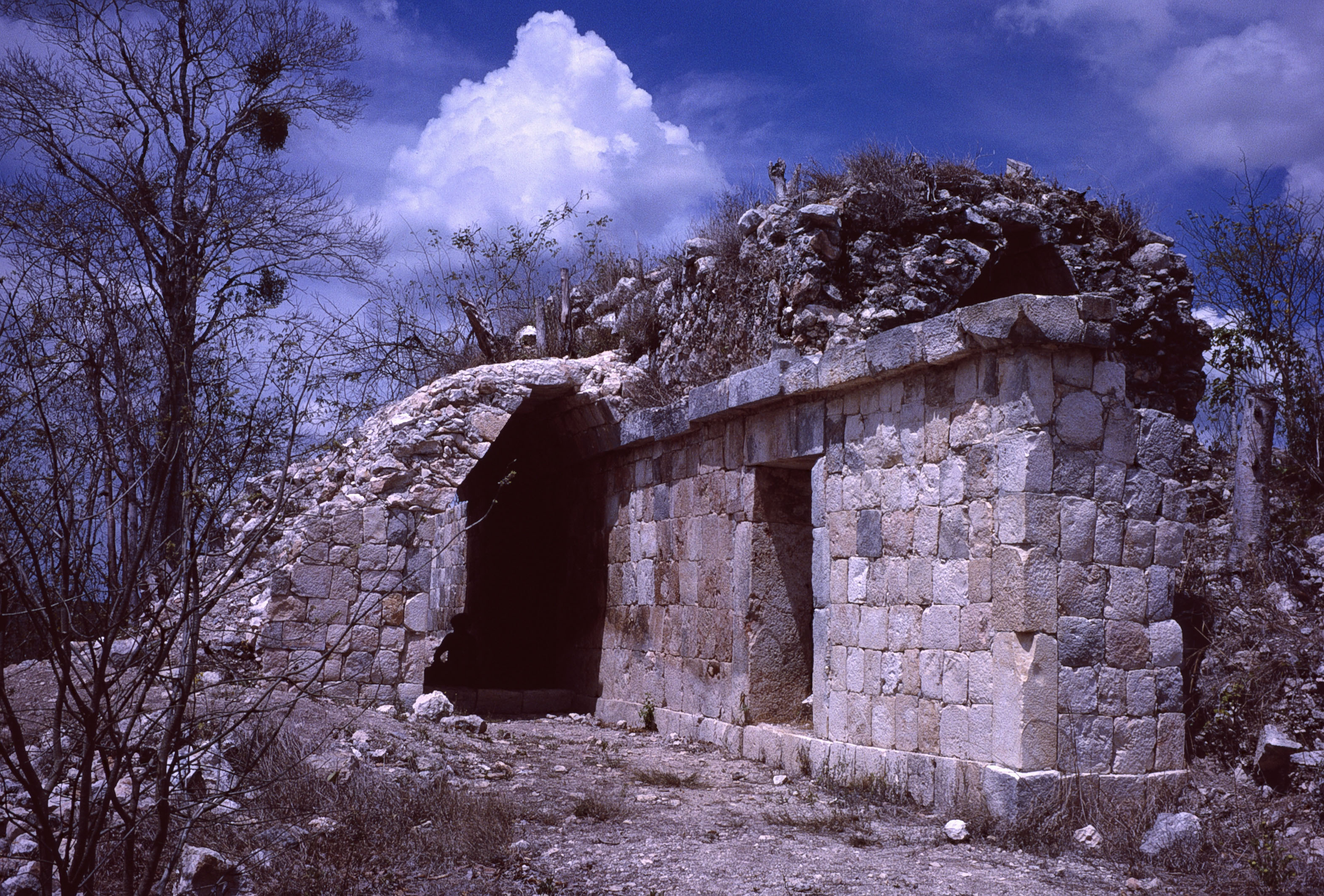 Xcalumkin, Campeche, Mexico: North hill group